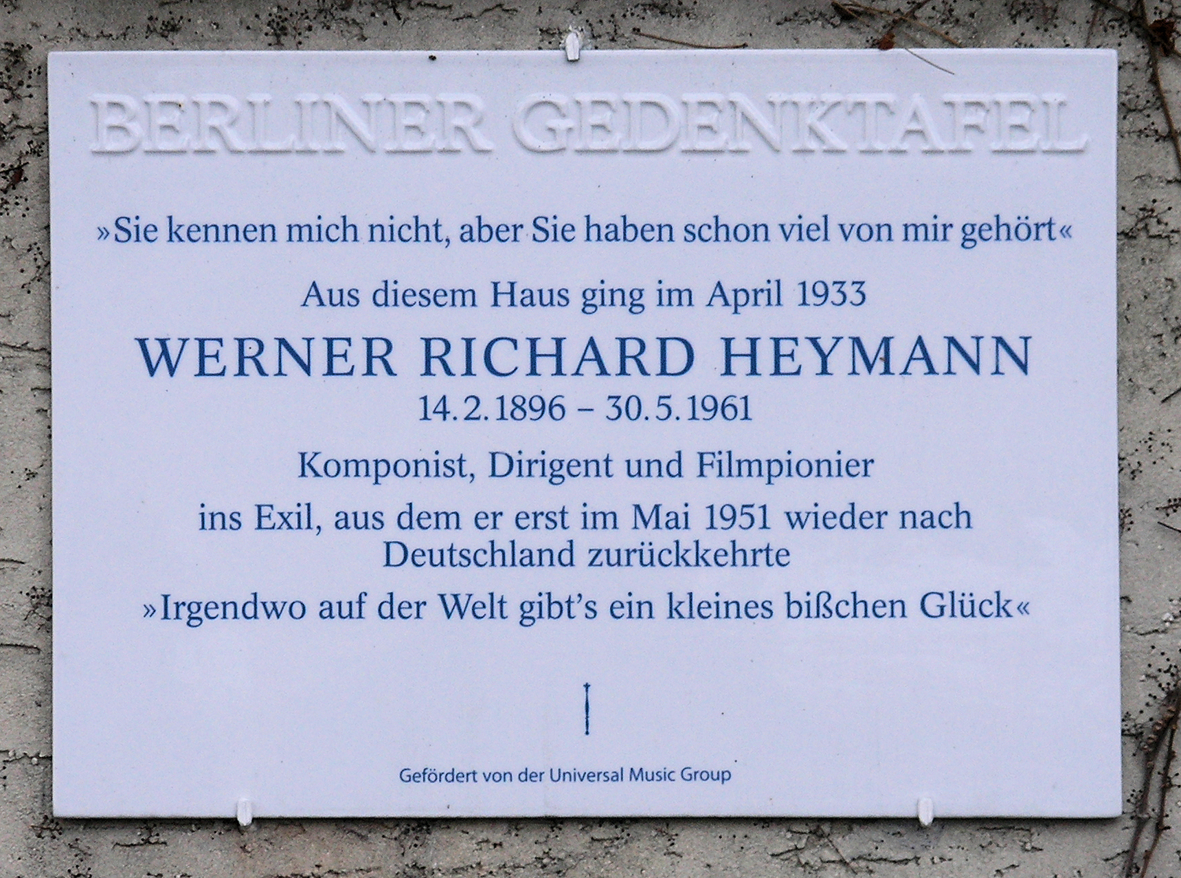 Berlin memorial plaque, Werner Richard Heymann, Karolingerplatz 5a, Berlin-Westend, Germany Koordinate:52°30′26″N 13°16′6″E / 52.50722°N 13.26833°E